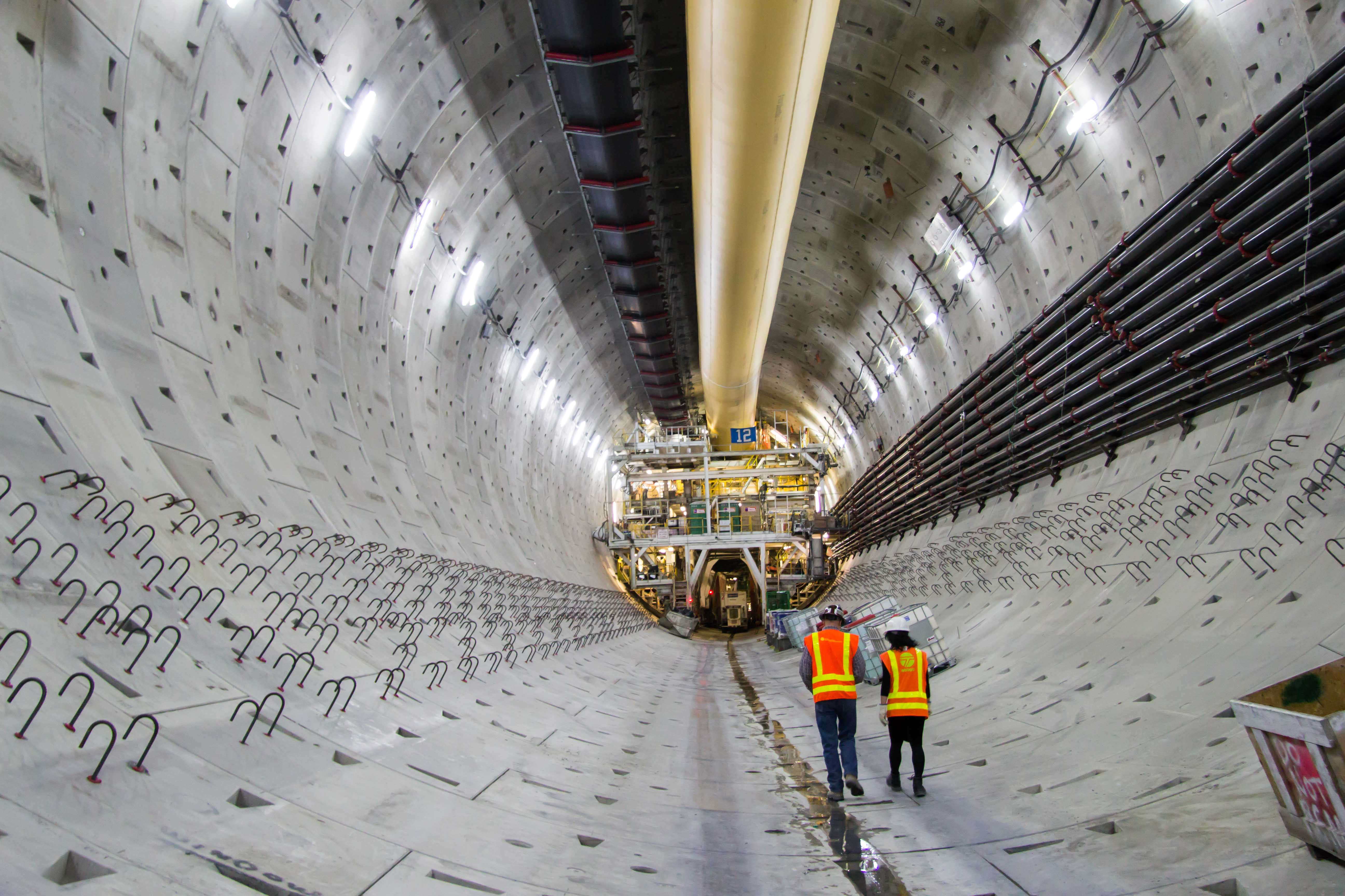 CMs Burgess and Juarez toured progress of Bertha on 1/6/17. The tunnel boring machine was underneath Bell St in Belltown.